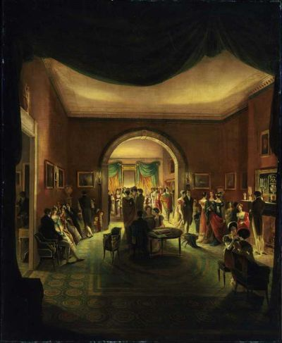 The Tea Party. about 1824. By Henry Sargent, American, 1770–1845. 163.51 x 133.03 cm (64 3/8 x 52 3/8 in.). Oil on canvas. Museum of Fine Arts, Boston.